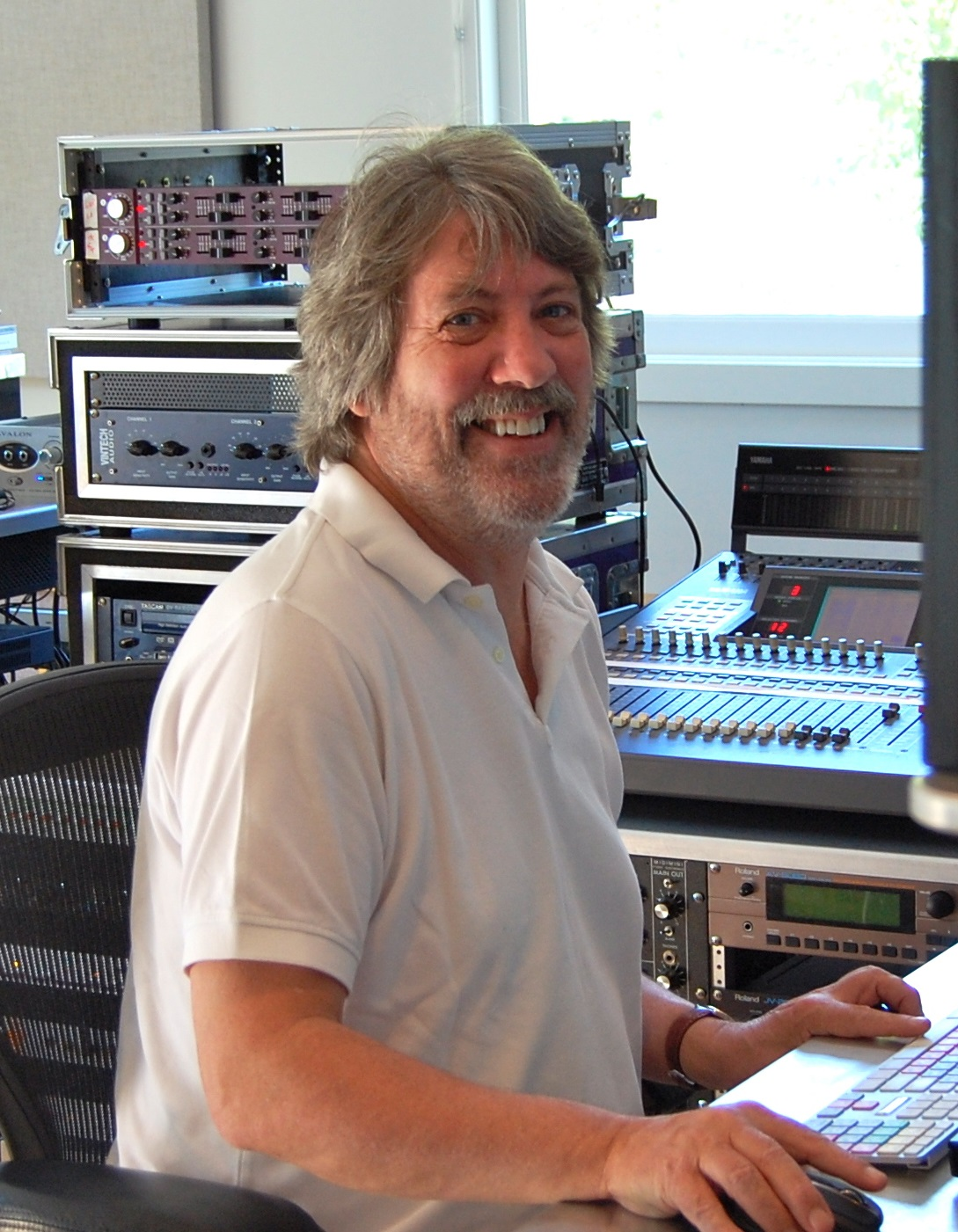 David Hentschel producer 2012